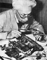 James Bieberkraut in the late 1940s in Jerusalem